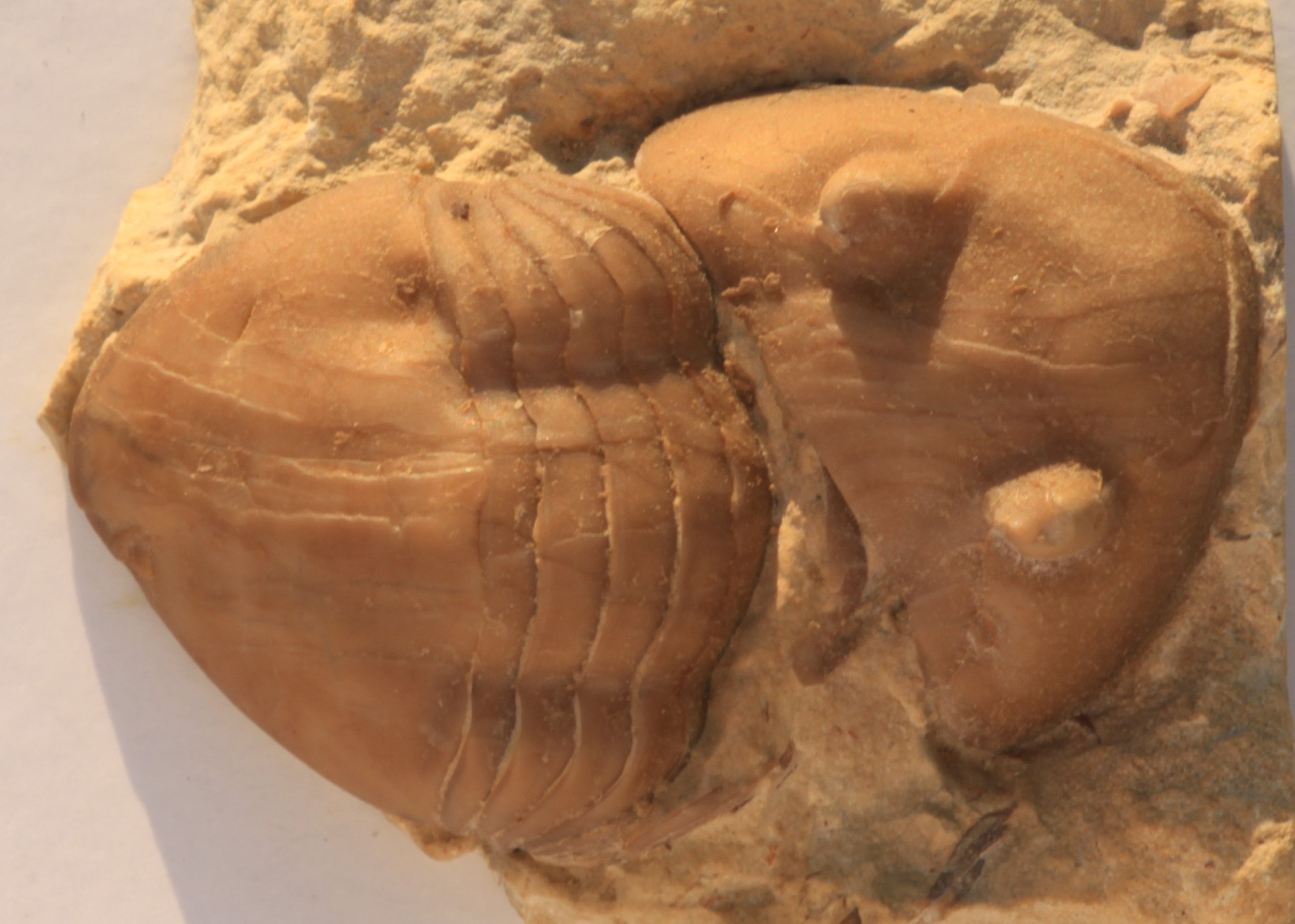 A disarticulate Homotelus bromidensis trilobite, Order Asaphida, family Asaphidae, 45mm head to tail, dorsal view, collected from the Bromide Formation, Pooleville member, Carter County, Oklahoma, USA, from the Middle Ordovician